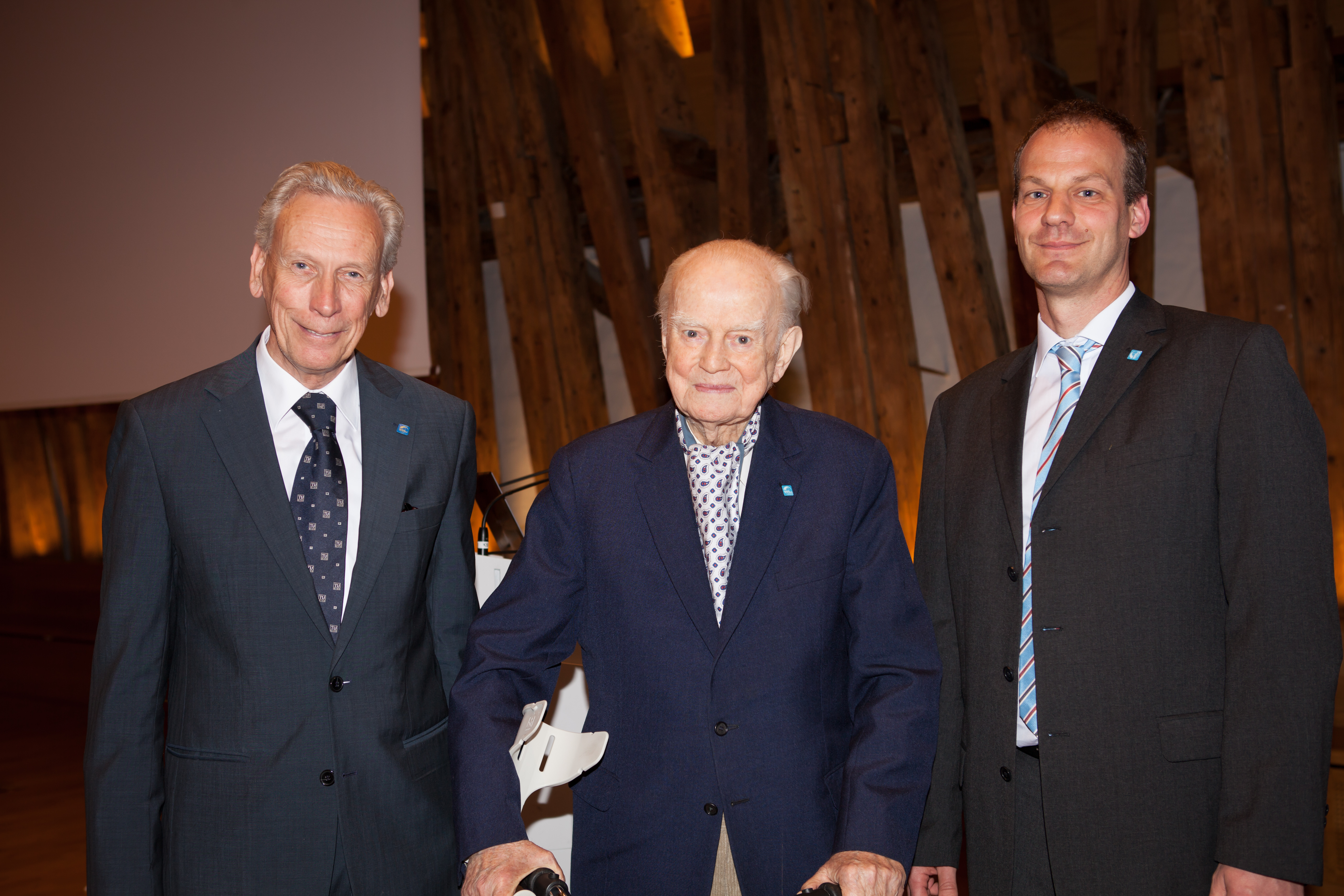 Three generations of professors of the Institute for Water Quality and Resource Management, TU Wien